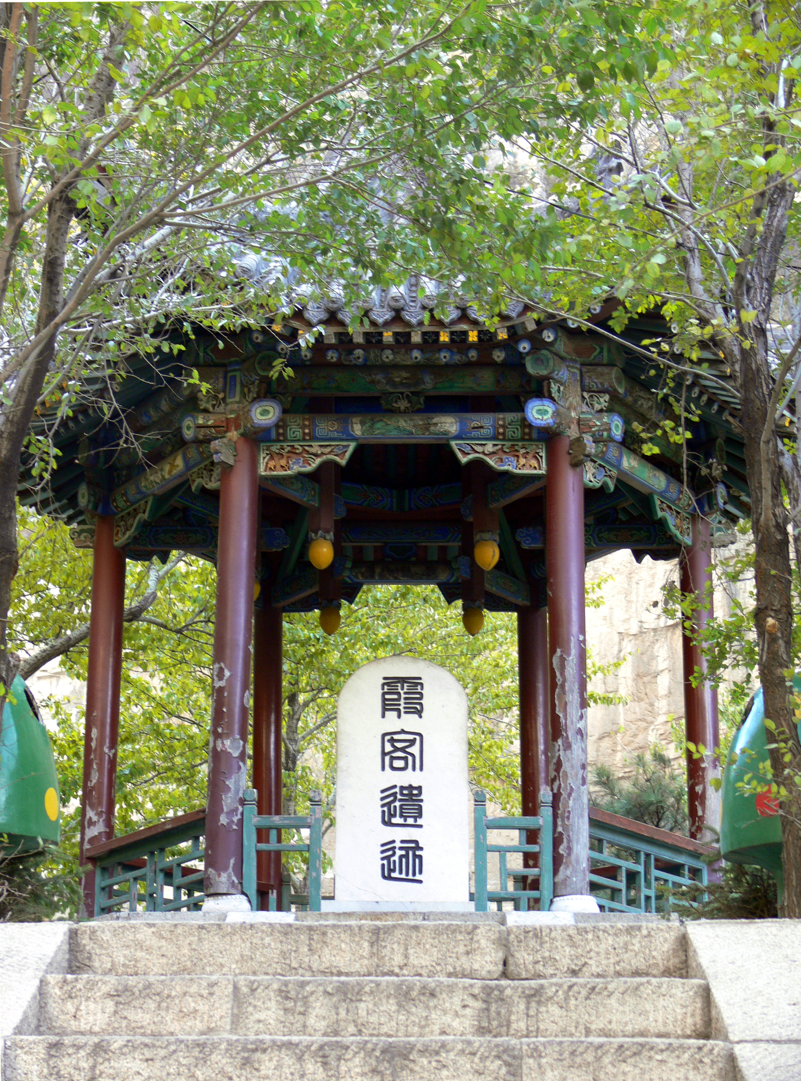 Xu Xiake pavilion in Yunyuan county, Shanxi